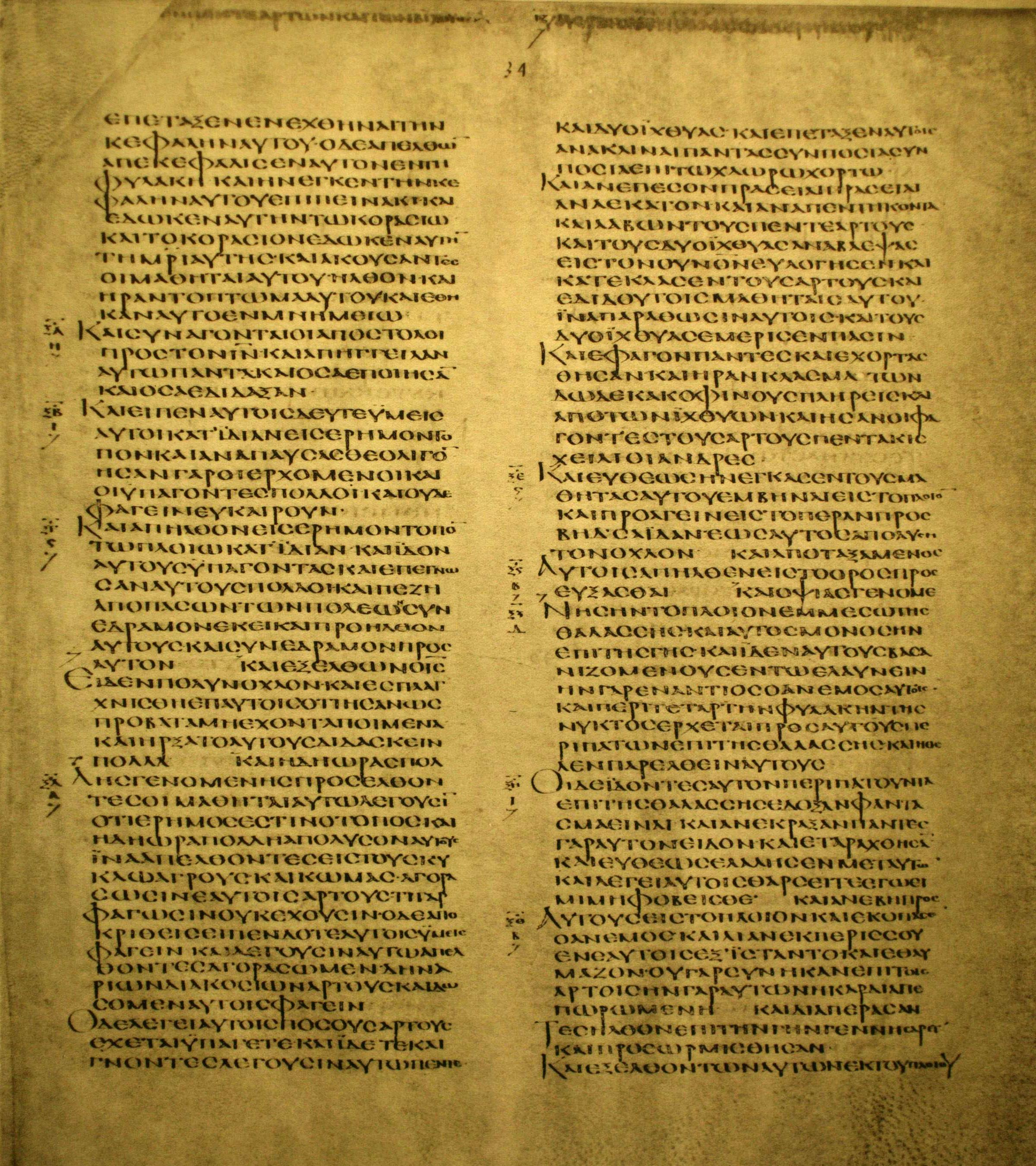 folio 13 recto with text of Mark 6:27-54